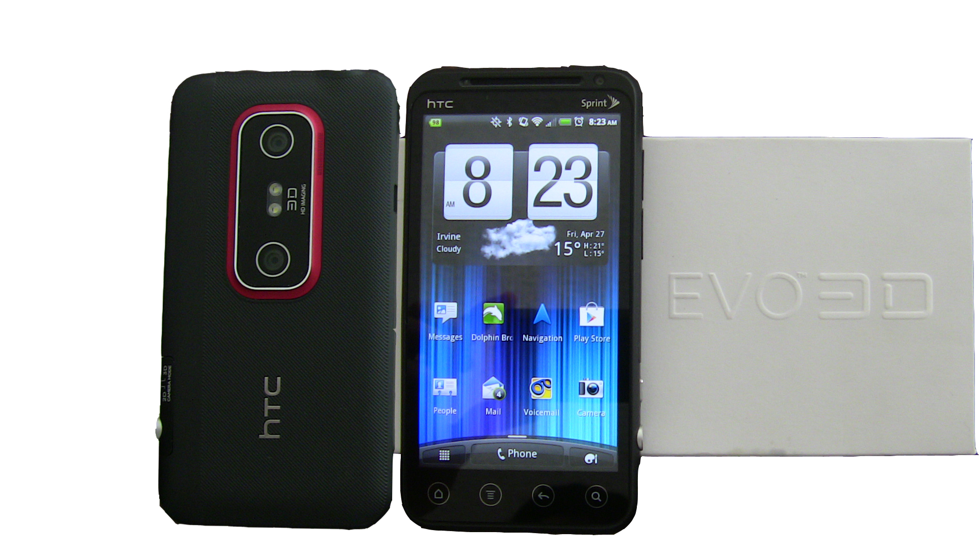 Front and back picture of a HTC EVO 3D